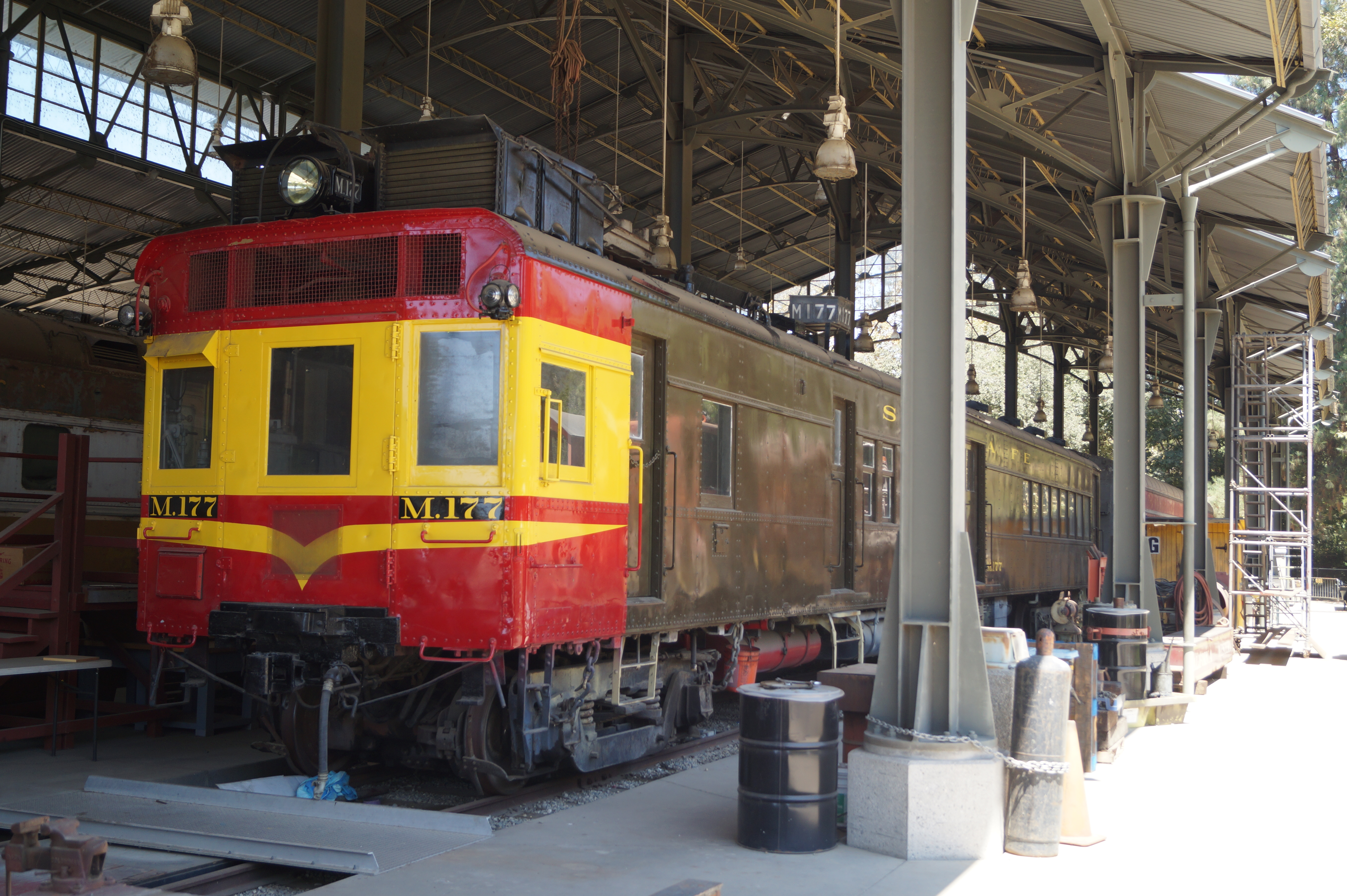 Travel Town Museum is a transport museum dedicated in the northwest corner of Los Angeles, California's Griffith Park. The history of railroad transportation in the western United States from 1880 to the 1930s is the primary focus of the museum's collection, with an emphasis on railroading in Southern California and the Los Angeles area.